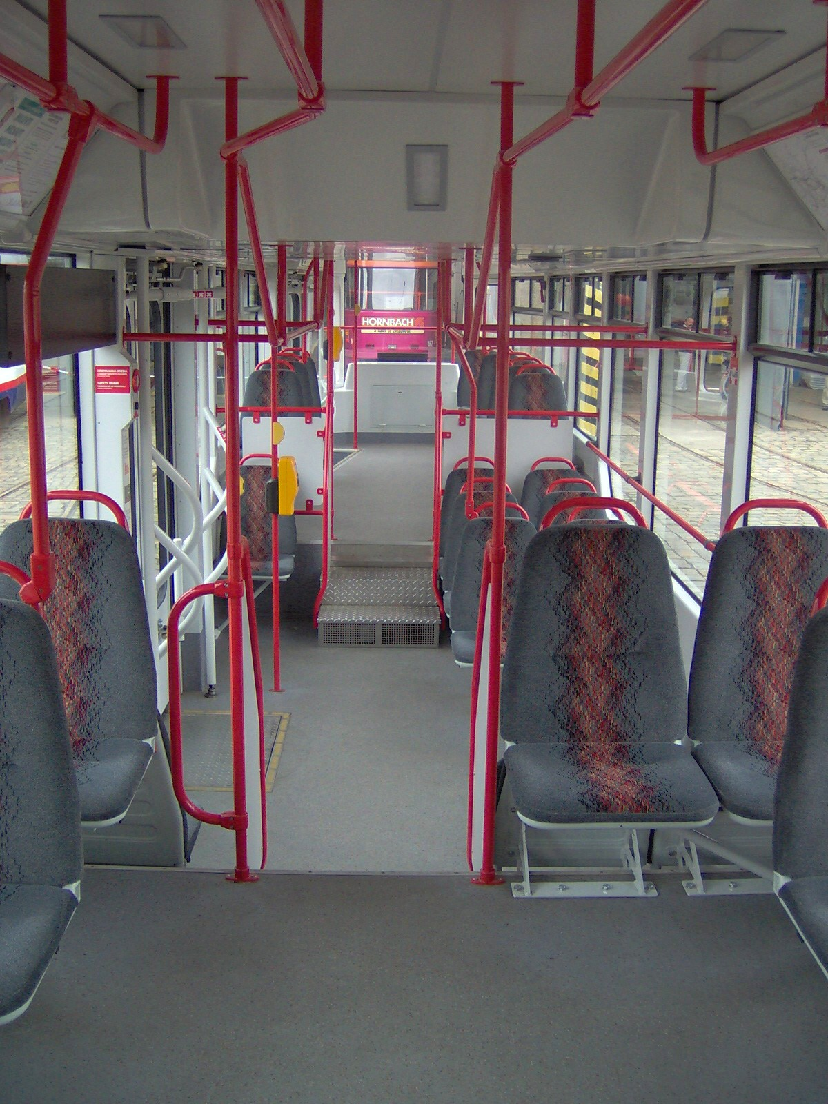 Interior of Vario LF tram in tram depot, Olomouc, Czech Republic